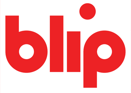 Logo of Blip, a video site designed for web series.